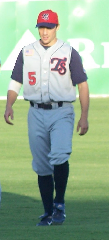 Description Sam Fuld with the Tennessee Smokies Date7/30/2008SourceI created this work entirely by myself.AuthorBrandonrush (talk) 17:38, 5 August 2008 . . Brandonrush . . 451×990 (158 KB) Sam Fuld with the Tennessee Smokies